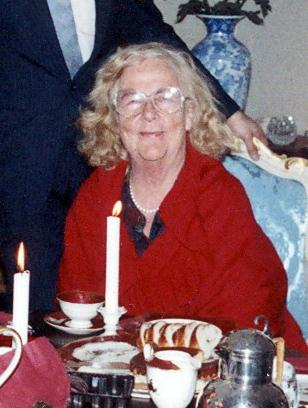 Swedish animal rights activist Ingrid af Trolle, as released by image creator Lars Jacob ProdPlace: Sjövägen 11, Tumba, Sweden